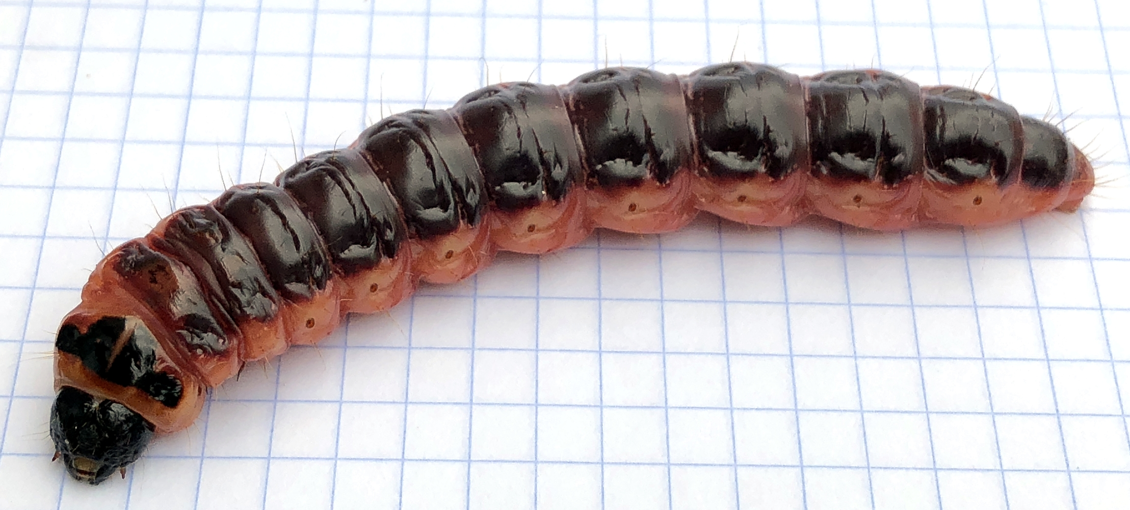 Cossus cossus (caterpillar) in Moscow, Russia (scale 5 mm)